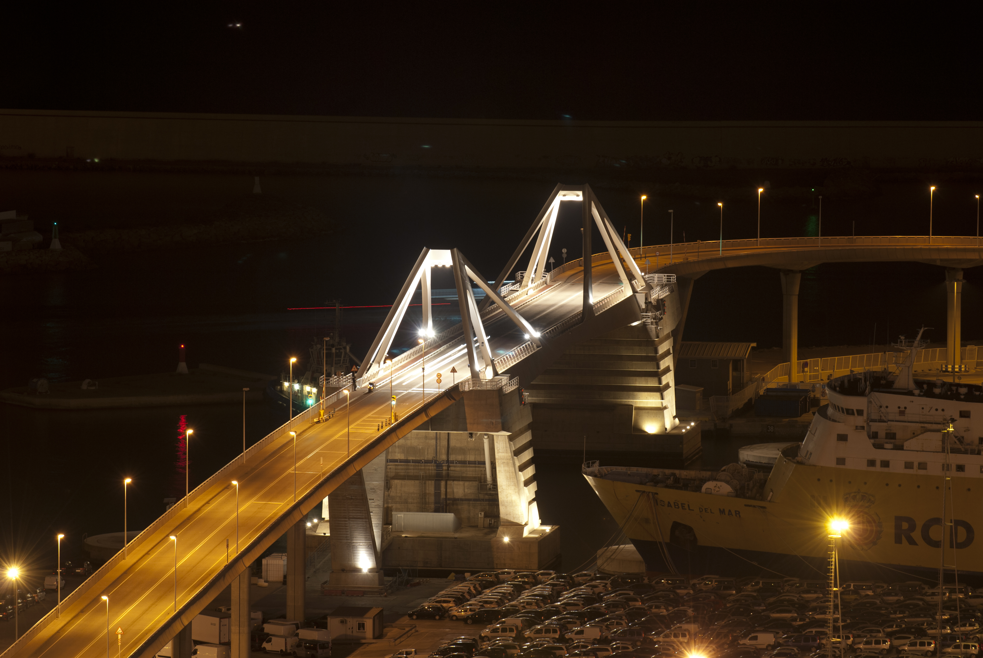 Photo of Porta d'Europa